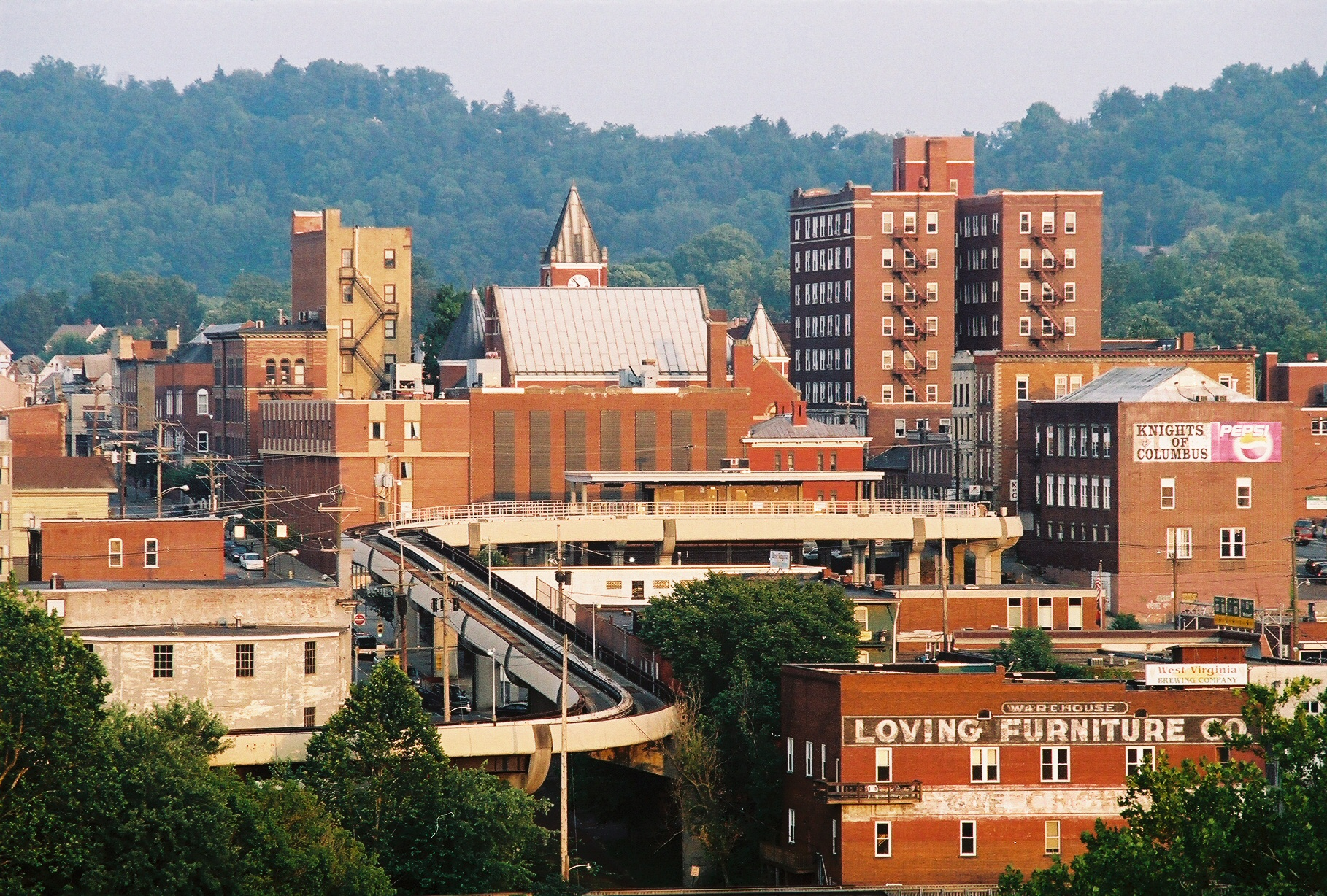 Walnut St. PRT Station; Morgantown, WV